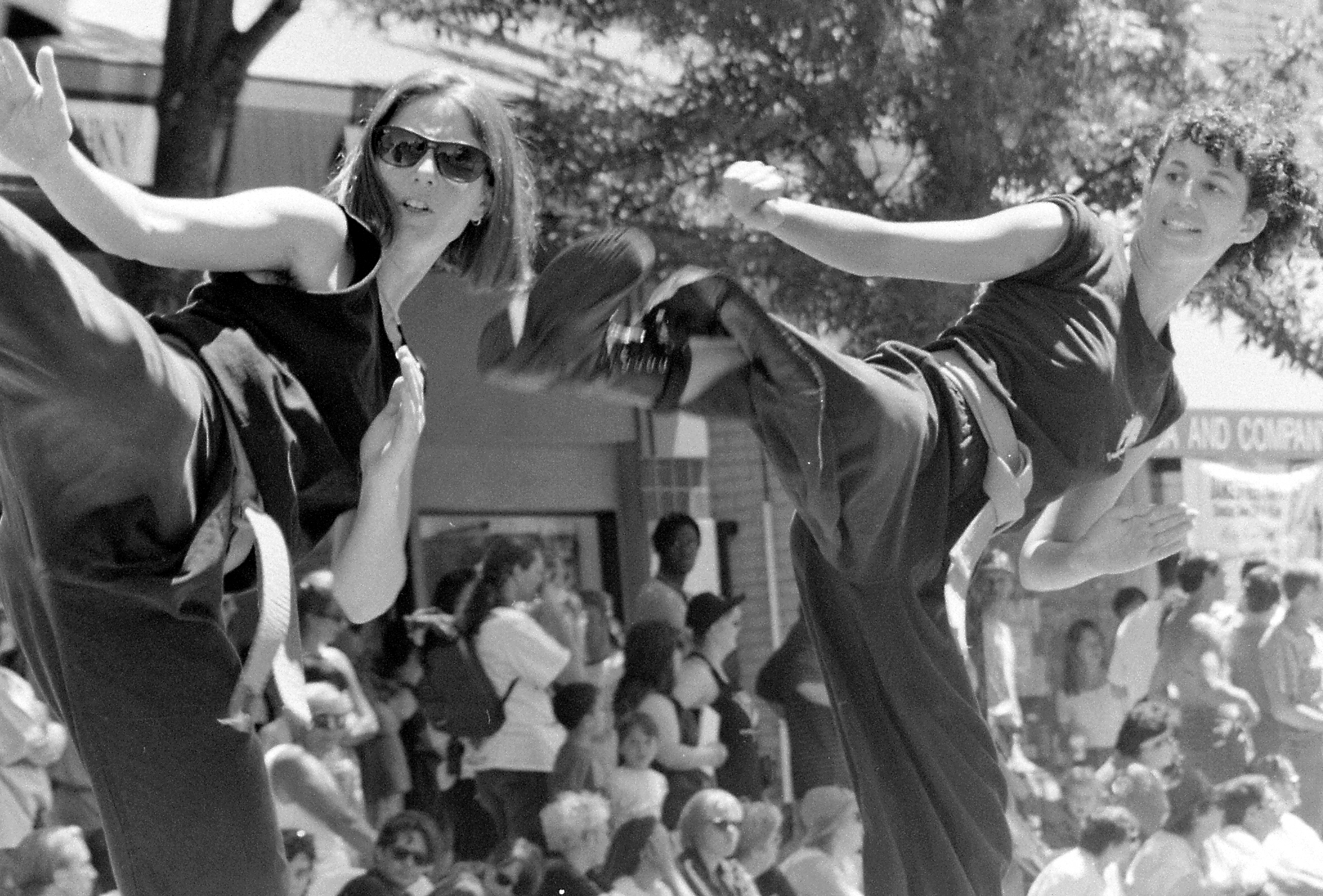 7 Star Women's Kung Fu (kajukenbo), annual Seattle LGBT Pride parade, Capitol Hill, Seattle, Washington, 1995. This would have been before this parade was relocated to its present downtown route in 2006.